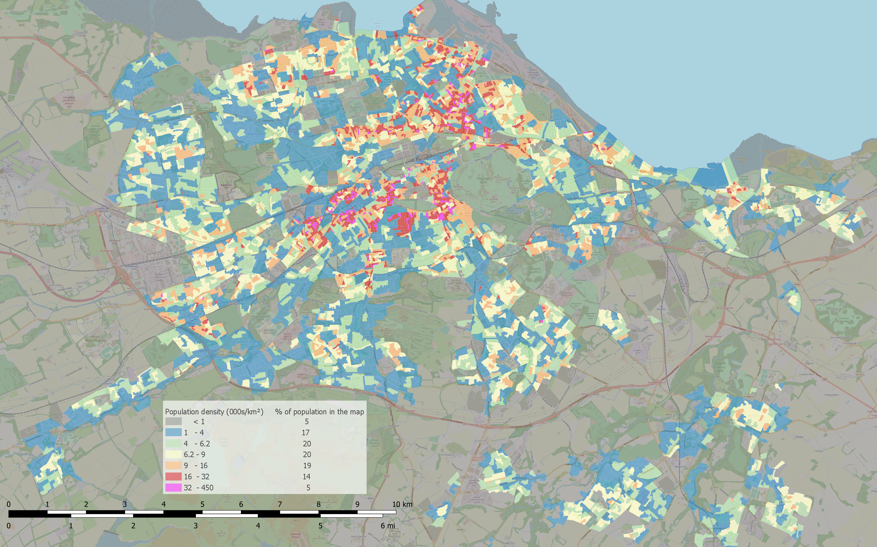 The map area was inhabited by 541,000 people. Population density computed from 2011 Output Area (OE) data there is on 2020 map so some new neighbourhoods are visible in the grey zone. Values sometimes are not representative because: sometimes a whole nonresidential area is contained in one from a few adjacent OEs. often tower block OEs encompass only building, sometimes only part of it, to keep up stiff household count limit, what gives very high density OE boundaries are visible, especially in red and pink.